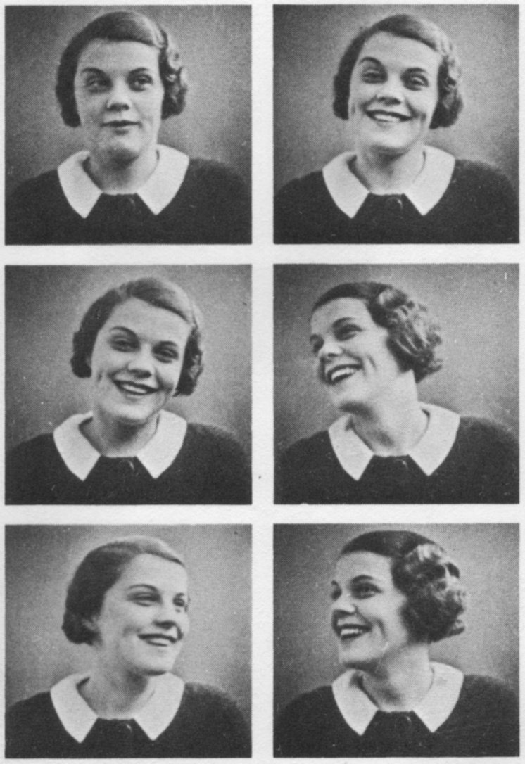 Actress Sickan Carlsson (1915-) in the 1930s